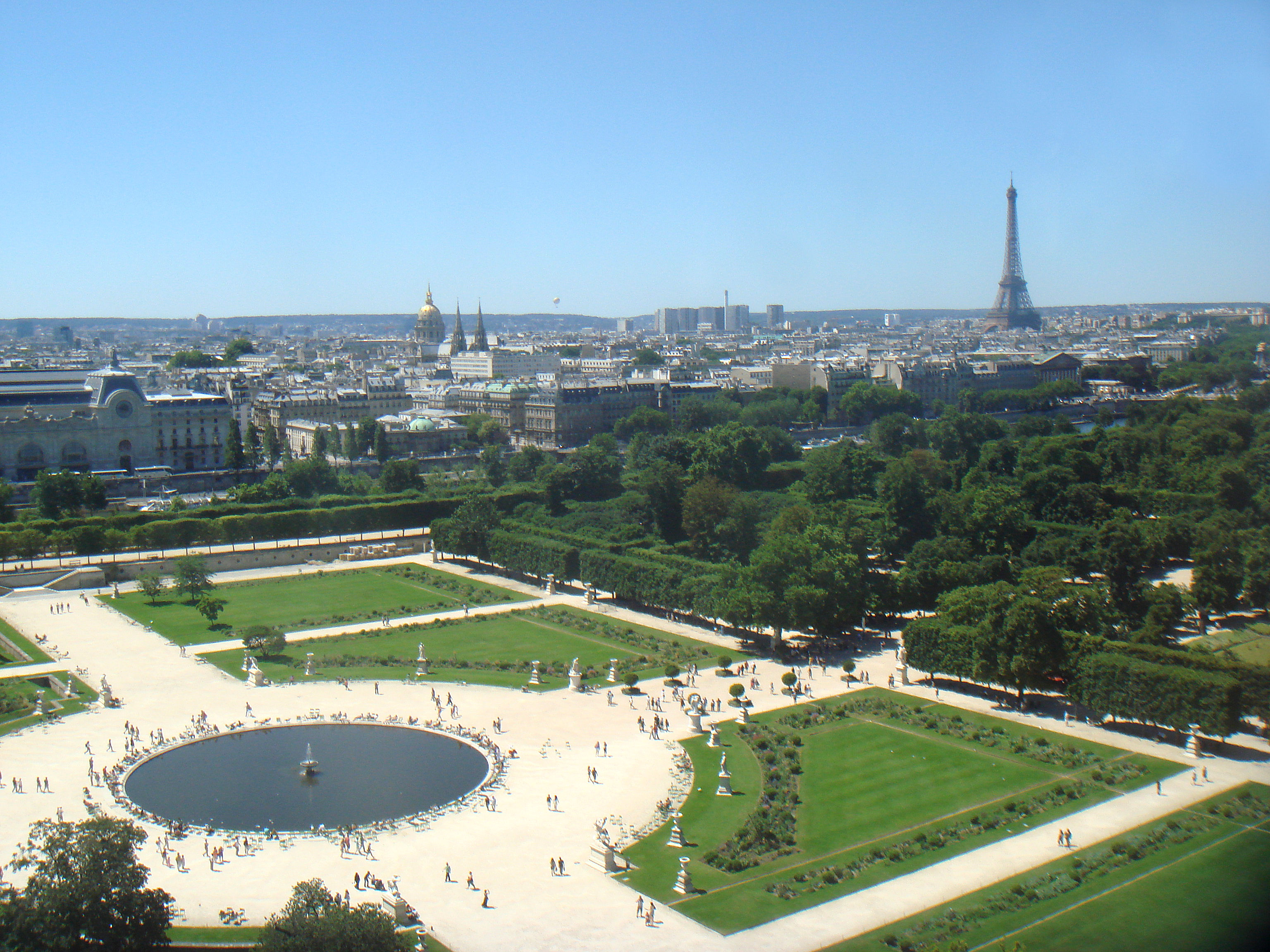 Tuileries_panorama